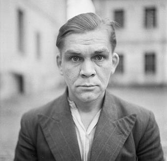 Item Name: THE LIBERATION OF BERGEN-BELSEN CONCENTRATION CAMP 1945: PORTRAITS OF BELSEN GUARDS AT CELLE AWAITING TRIAL, AUGUST 1945 [Official photographPortrait photograph (formal)] WAR OFFICE SECOND WORLD WAR OFFICIAL COLLECTION